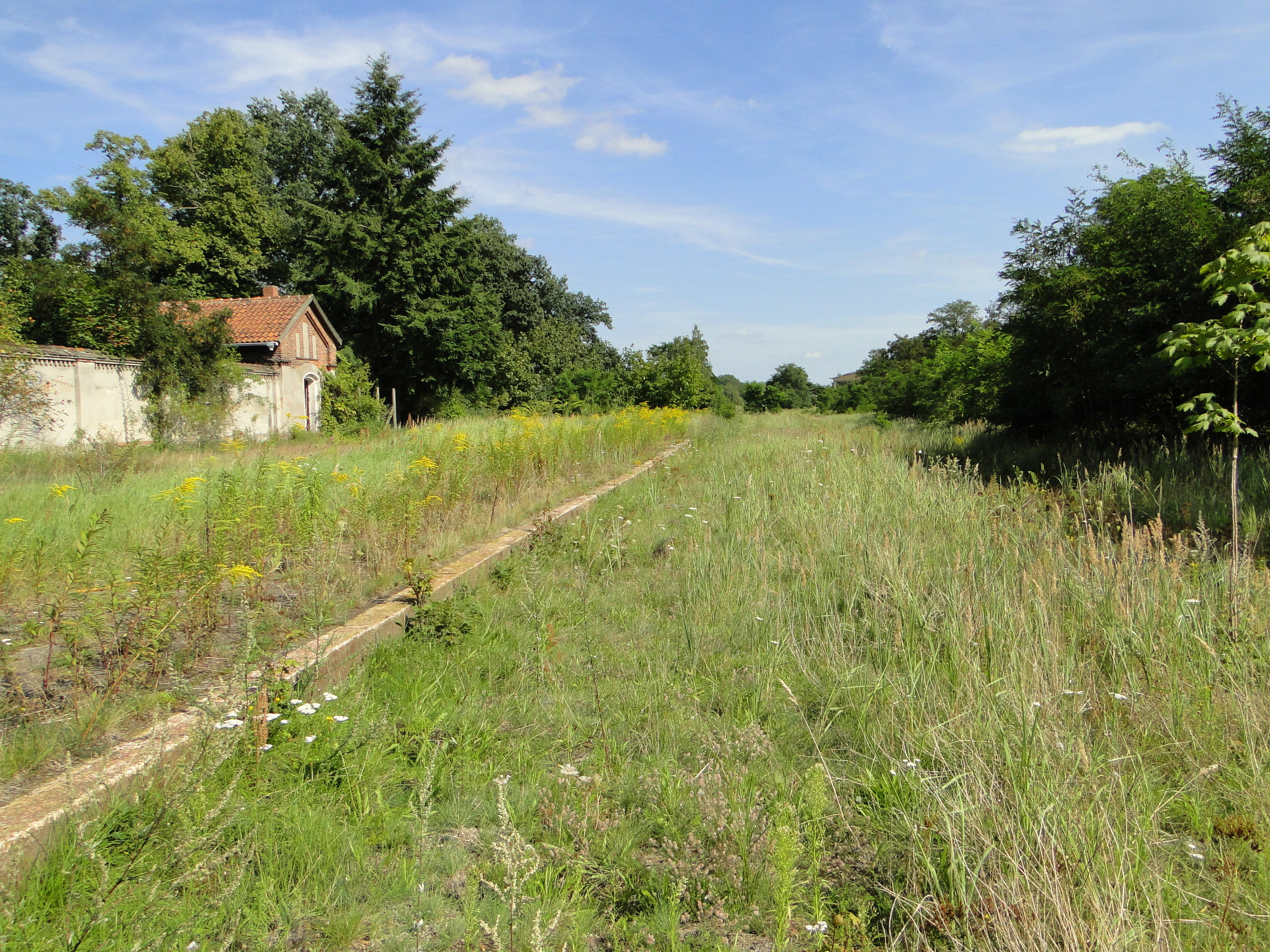 Dömitz train station.